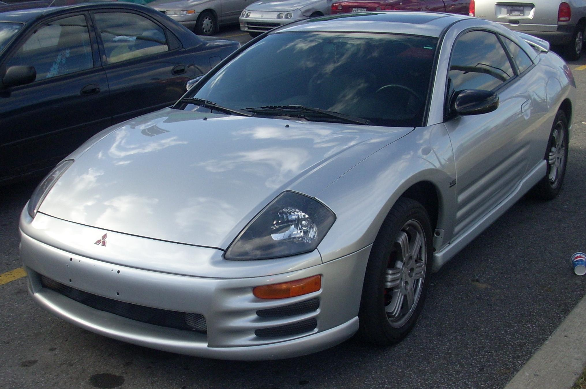 2000-2002 Mitsubishi Eclipse photographed in Montreal, Quebec, Canada.